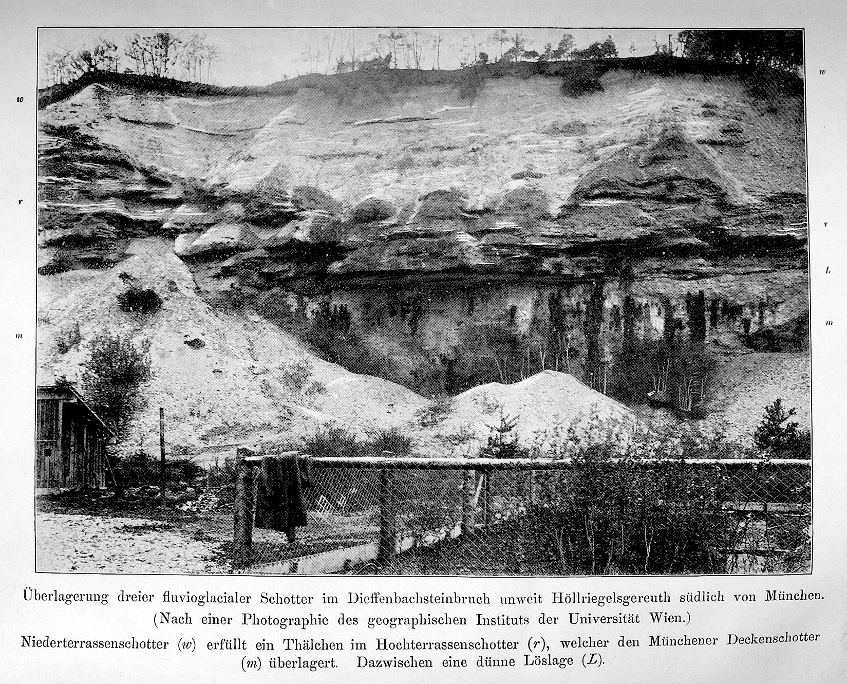 Picture 1 of the first volume of the authors Penck and Bruckner "Die Alpen in Eiszeitalter"